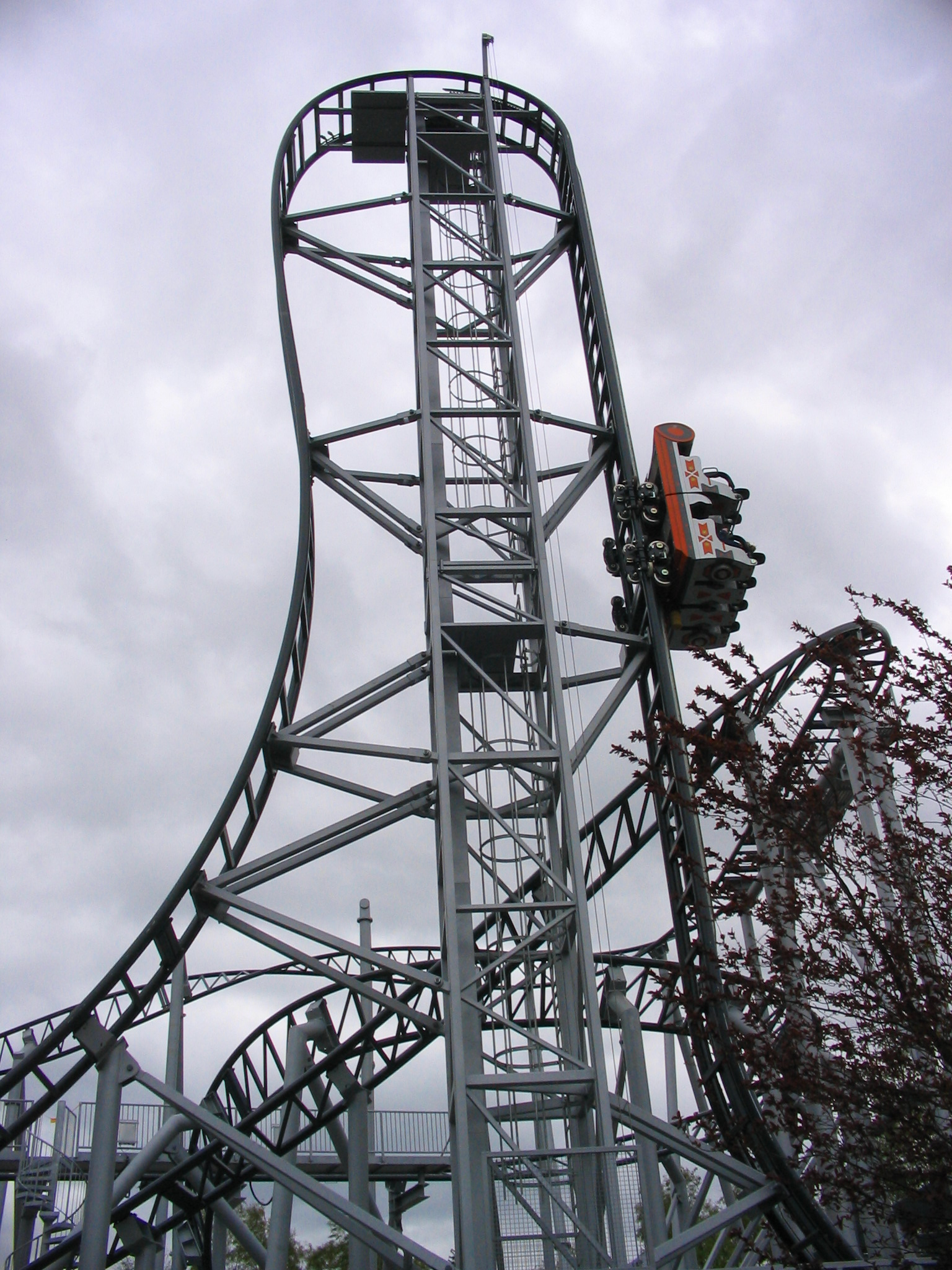 Lift and First Drop of Gerstlauer Eurofighter Typhoon at Bobbejaanland